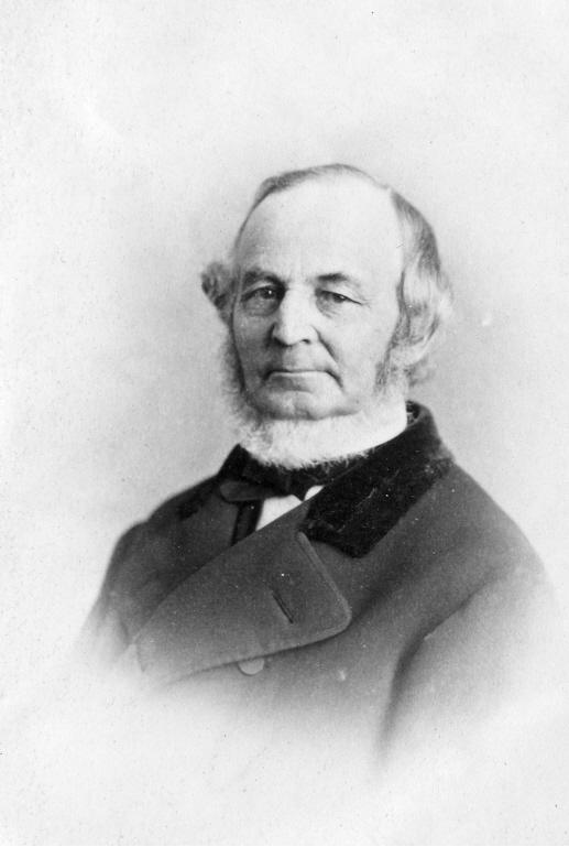 Edwin Atwater, businessperson and municipal politician, photographed by William Notman in 1868.